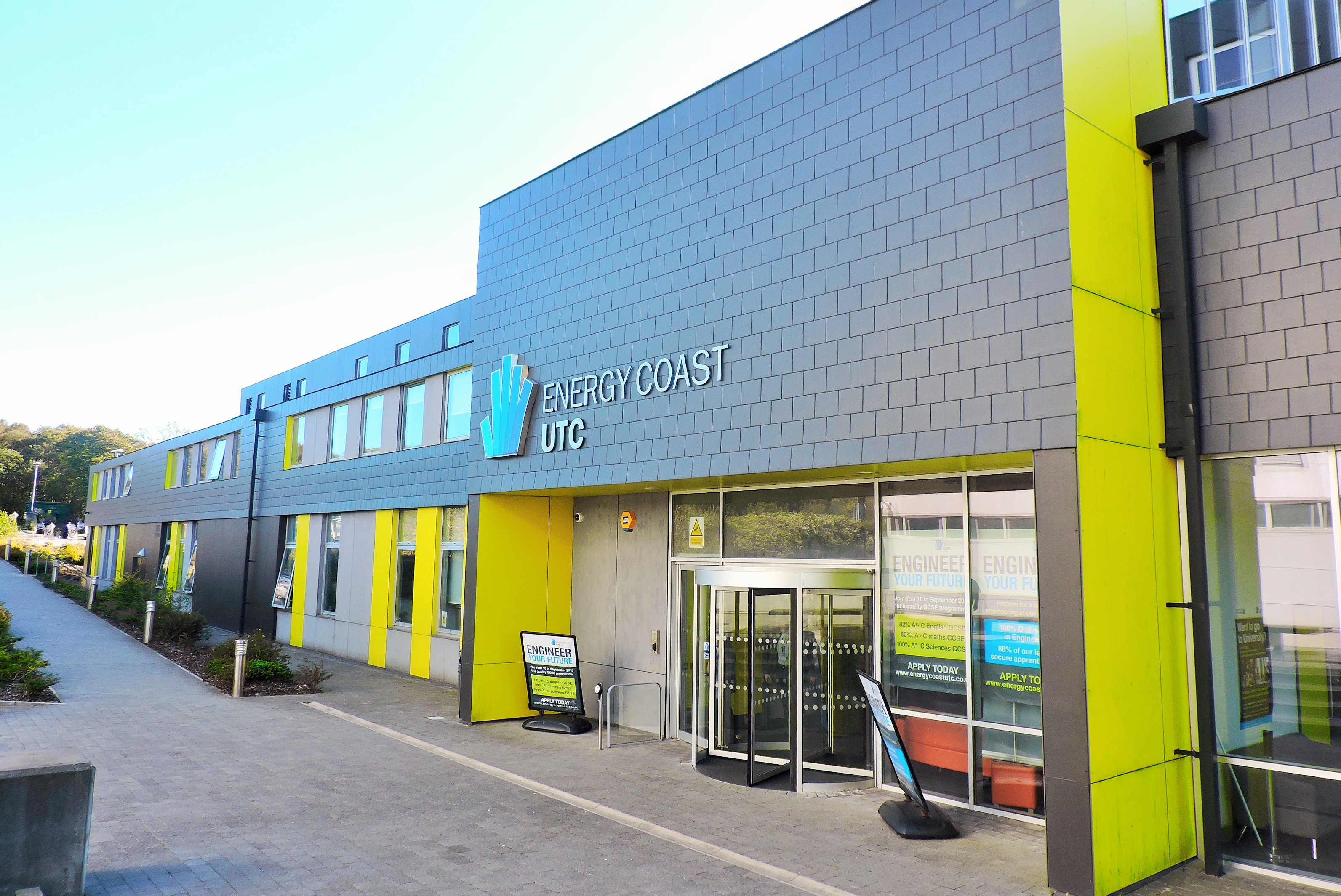 Entrance to the Energy Coast UTC